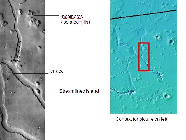 Hebrus Valles in Amenthes with labels. Location is near 2o degrees north latitude and 235 degrees west longitude. This picture was taken by the Mars 2001 Odyssey Thermal Emission Imaging System (THEMIS). The picture credit is NASA/JPL/Arizona State University.